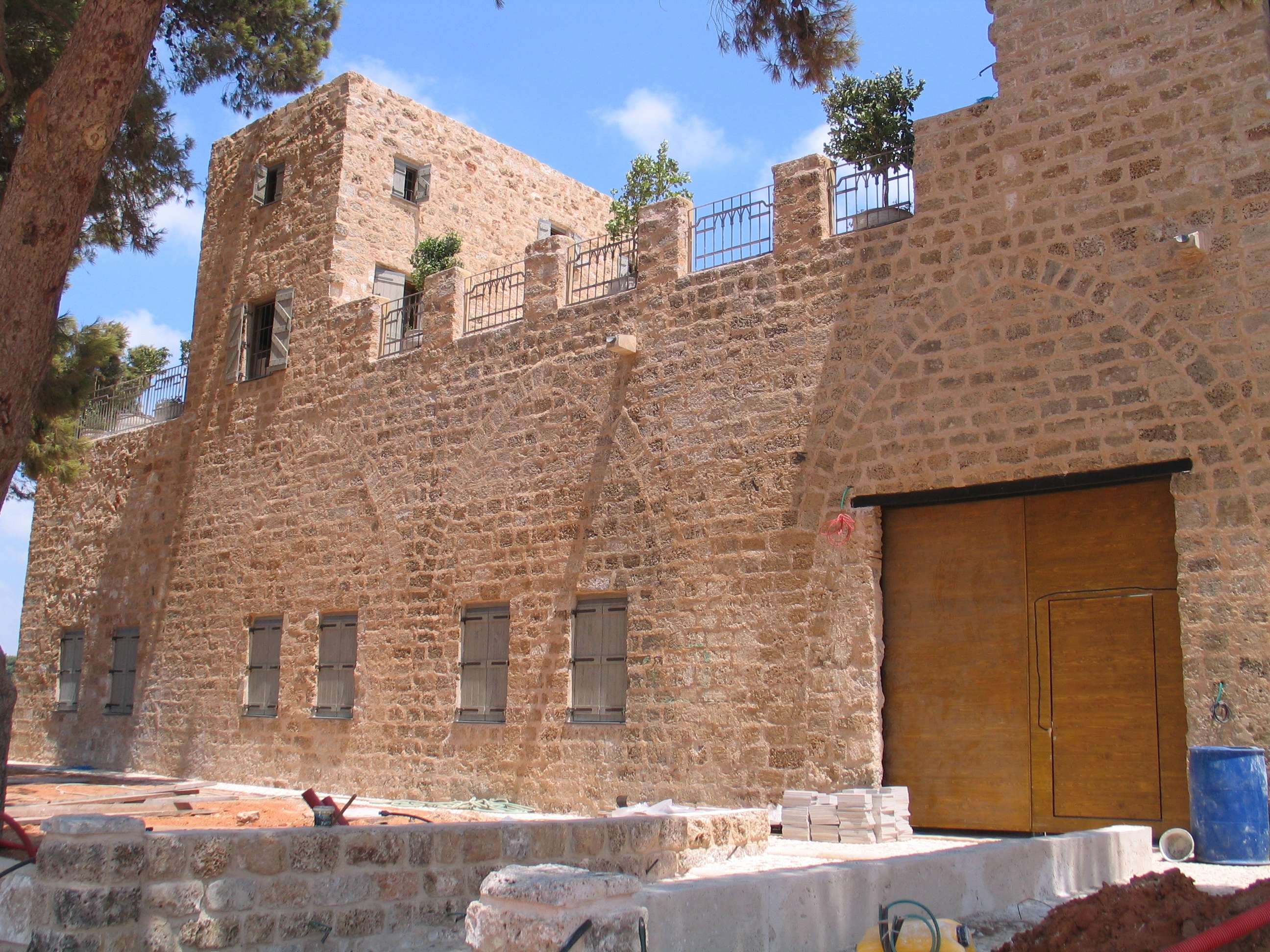 Binyamina, Israel.